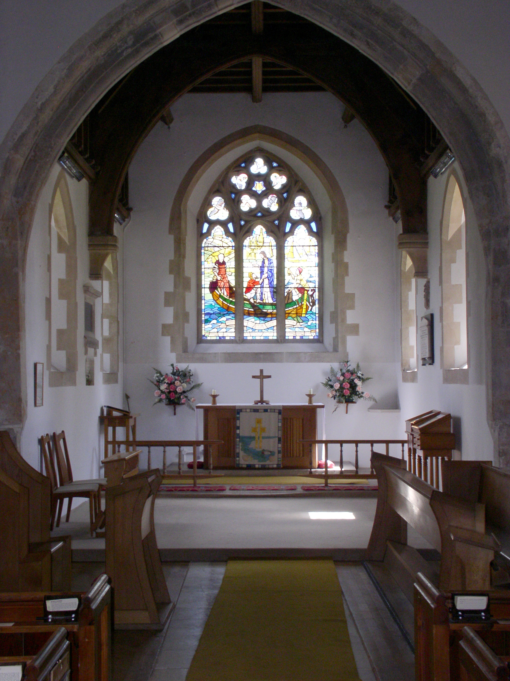 The chancel of St James' Church, Birdham